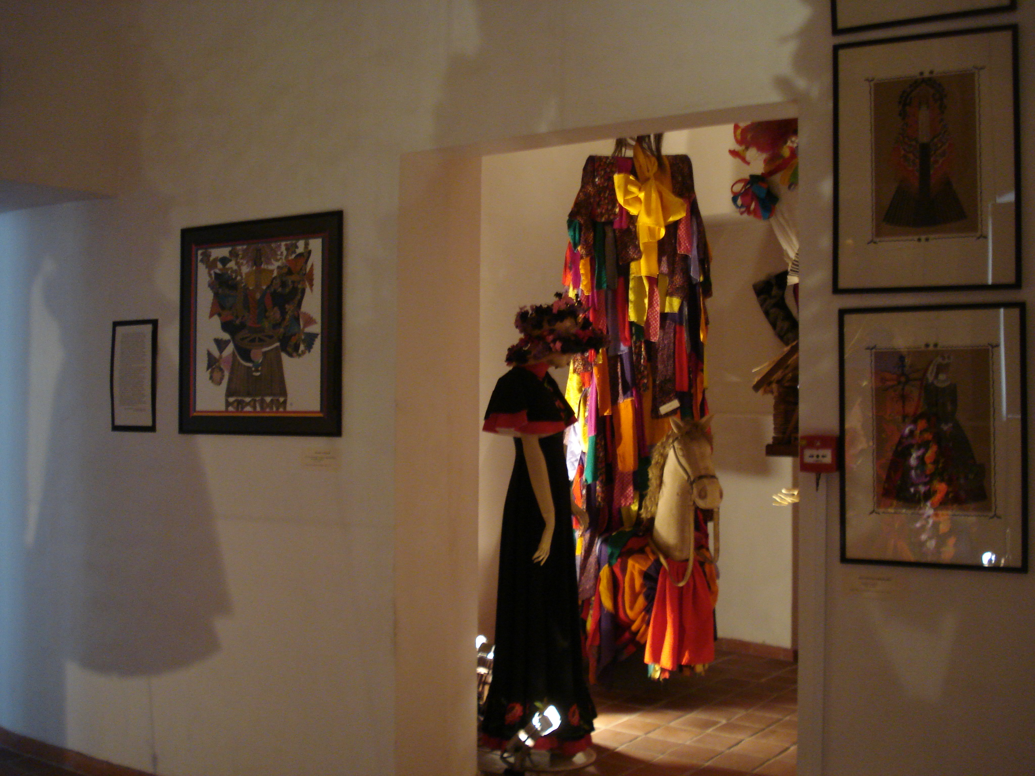 Exposition of the theatre costumes in the Lithuanian Theatre, Music, and Film Museum (Vilnius). 2008